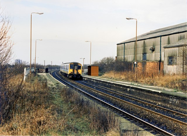 Park railway station Original description: Park station 1989 Although the area was named for Victorian Philips Park, rapid industrialisation during the late 19th century led to Park station being situated odiferously between Manchester abattoir and various CWS food processing factories. As the area declined in the 1960s and 1970s, Park lost its raison d'etre. It had a skeletal service by 1989 and closed without fuss shortly afterwards.